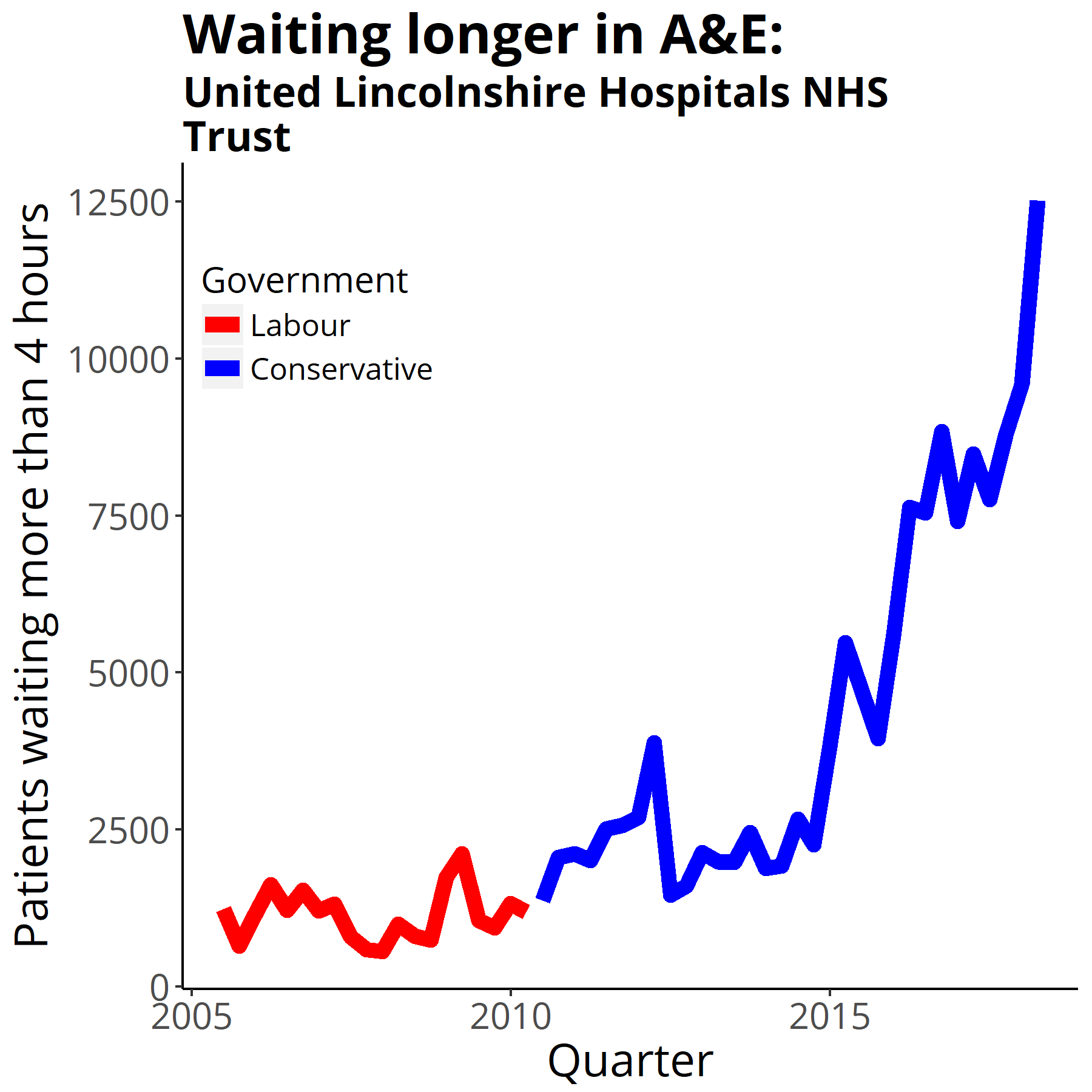 Four-hour target in the emergency department quarterly figures from NHS England Data from